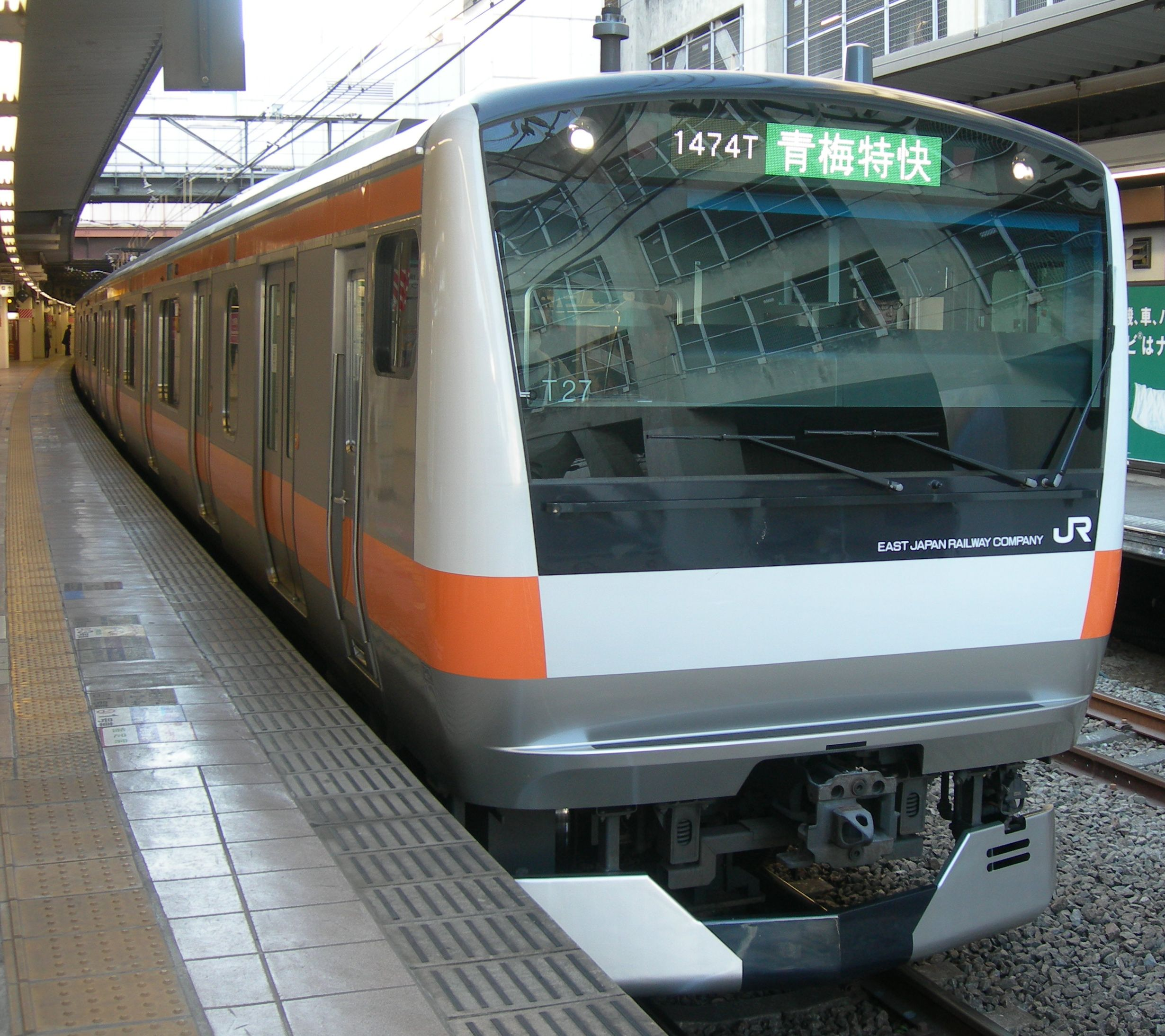 JR East E233 series EMU for Ome Special Rapid train at Tachikawa Station